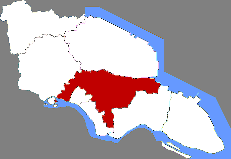 Location of Tongzhou district in Nantong city, China